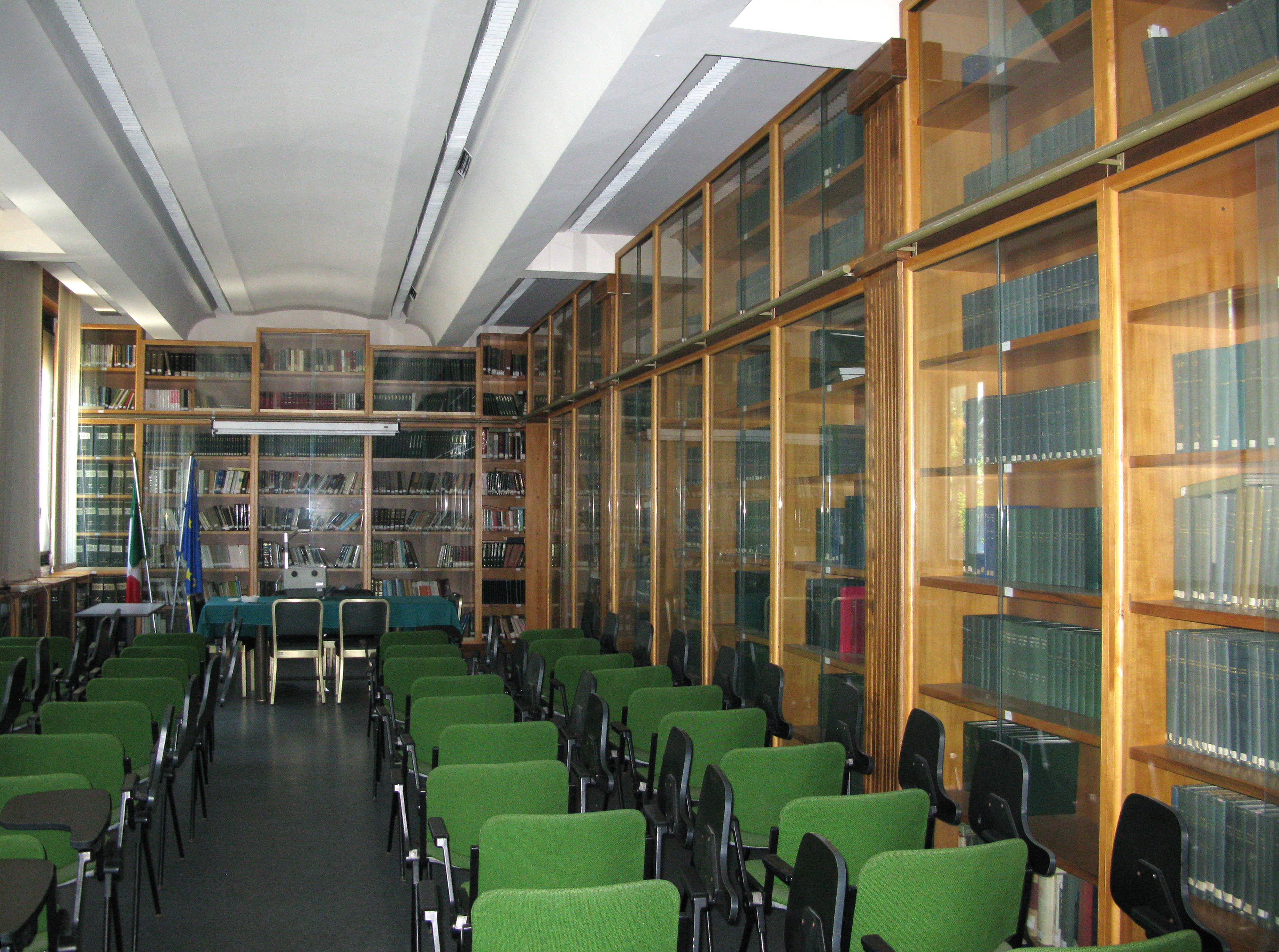 SSEA Library - Reggio Calabria, Italy